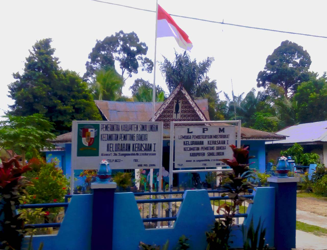 Office of Kerasaan I, Pematang Bandar, Simalungun